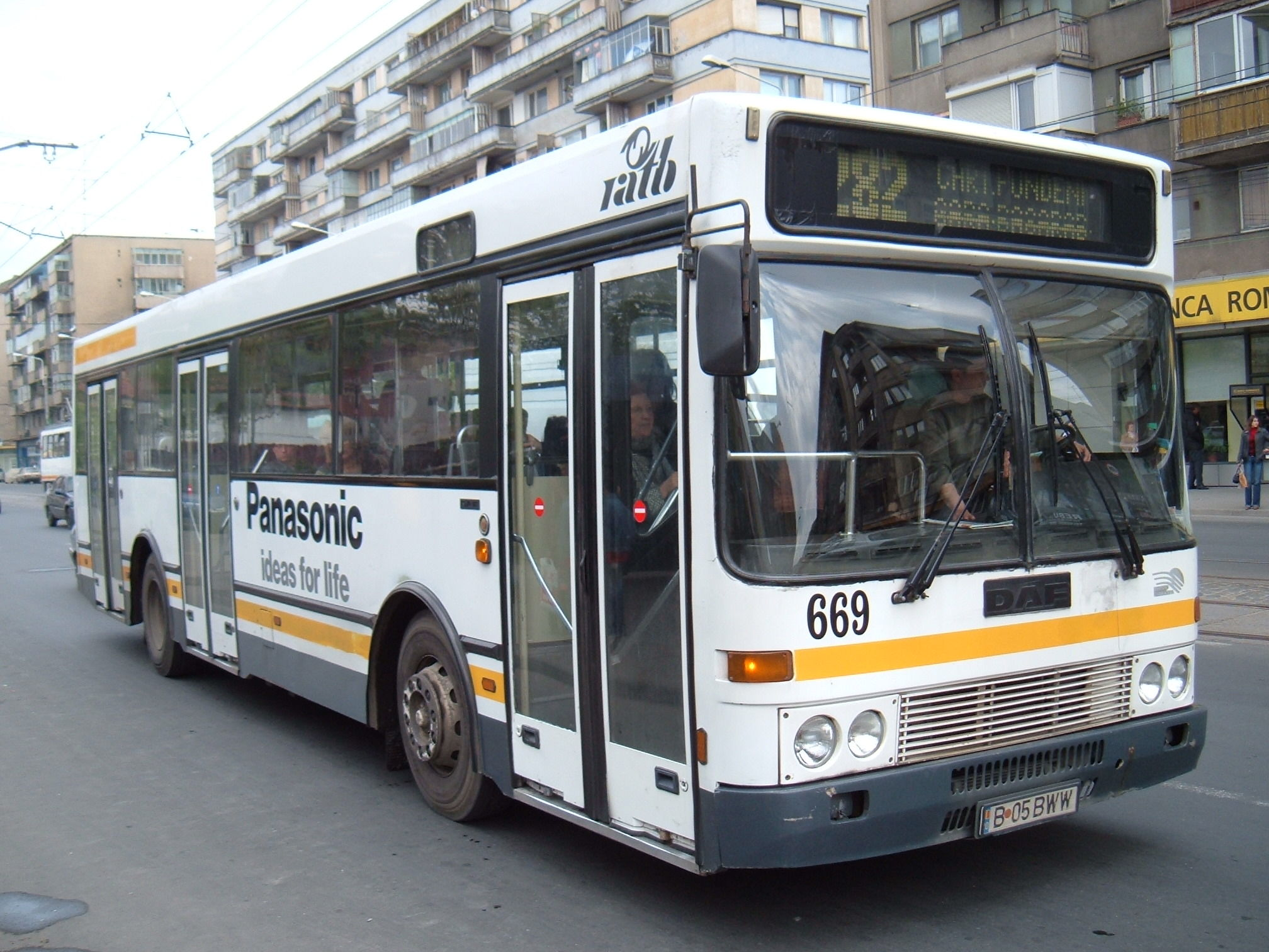 Public DAF - Hispano Carrocera bus (#669) in Bucharest, Romania (DAF SB220 chassis type). Built 1994. RATB Bucureşti operator.